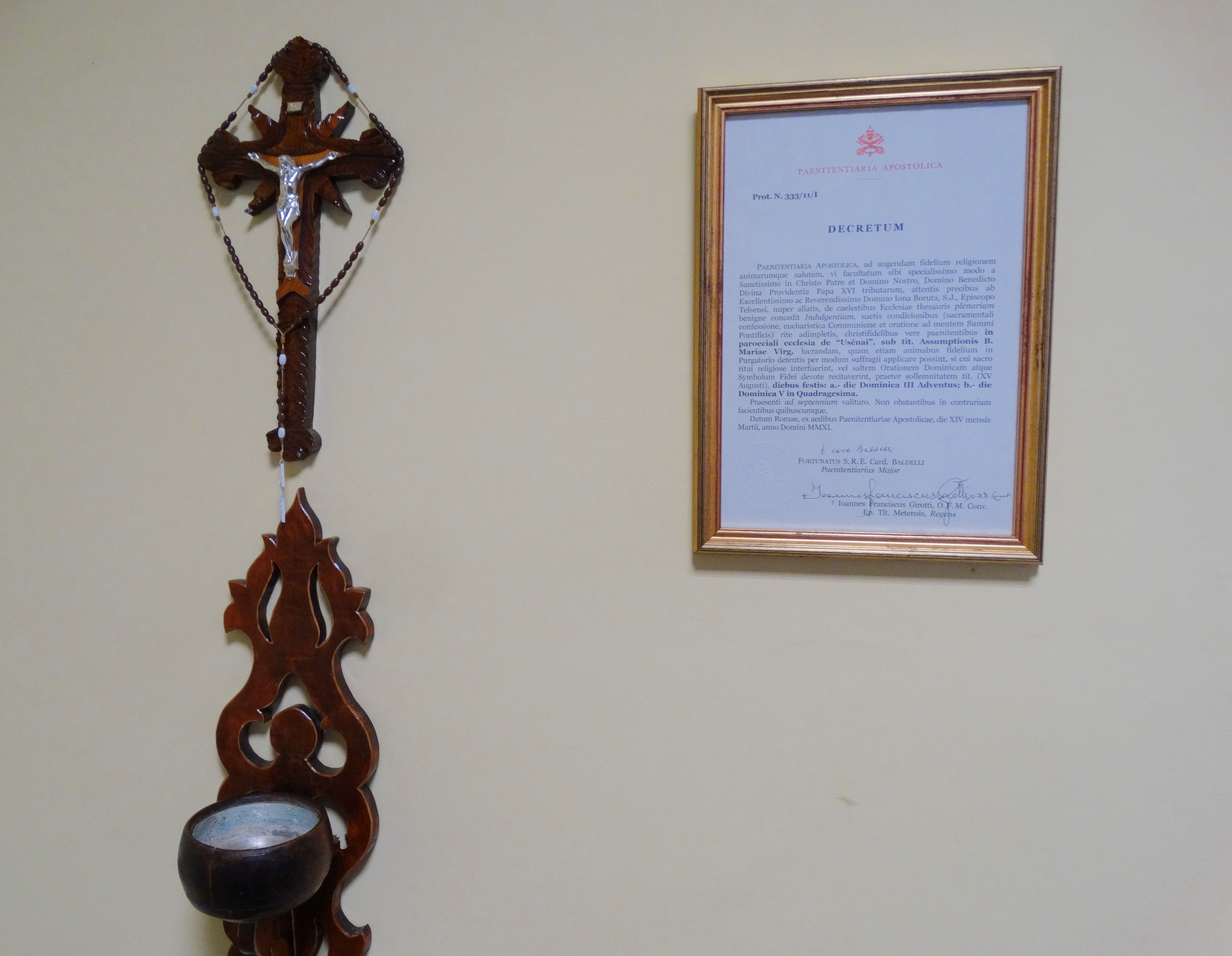 Catholic chapel, Usėnai, Šilutė district, Lithuania